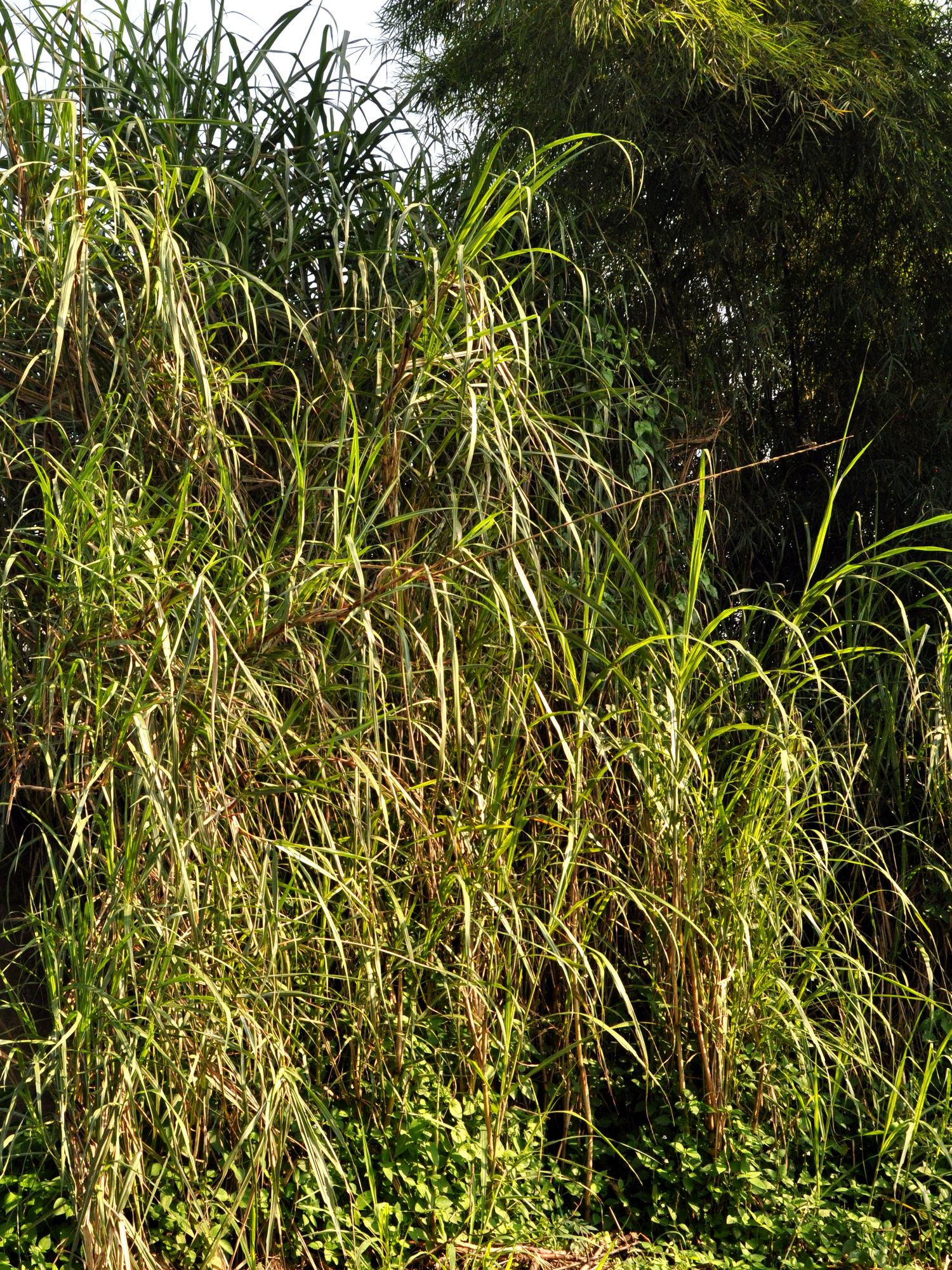 Wild cane, Saccharum spontaneum. From Bogor, West Java, Indonesia.